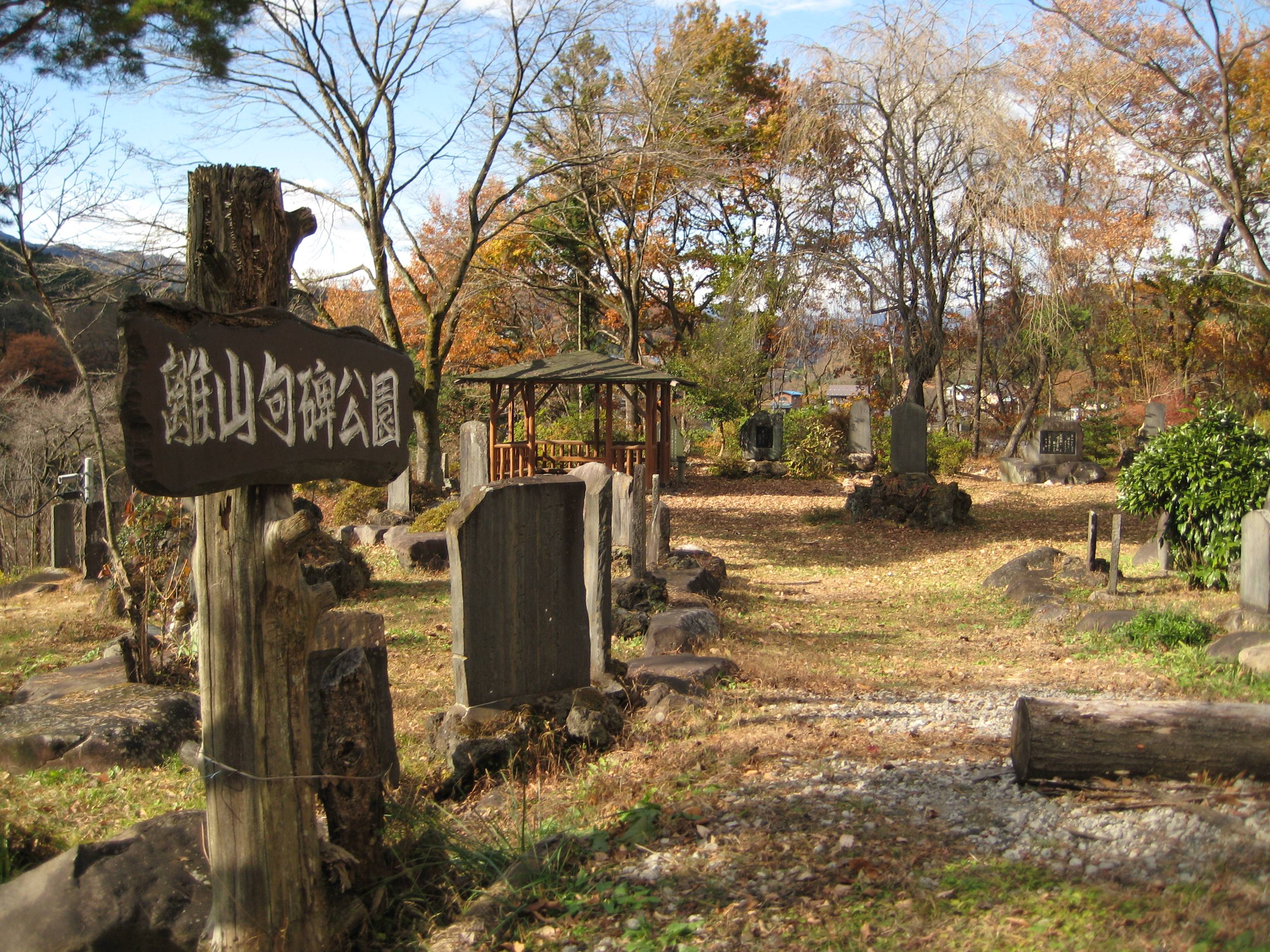 Hanareyama poetry park.